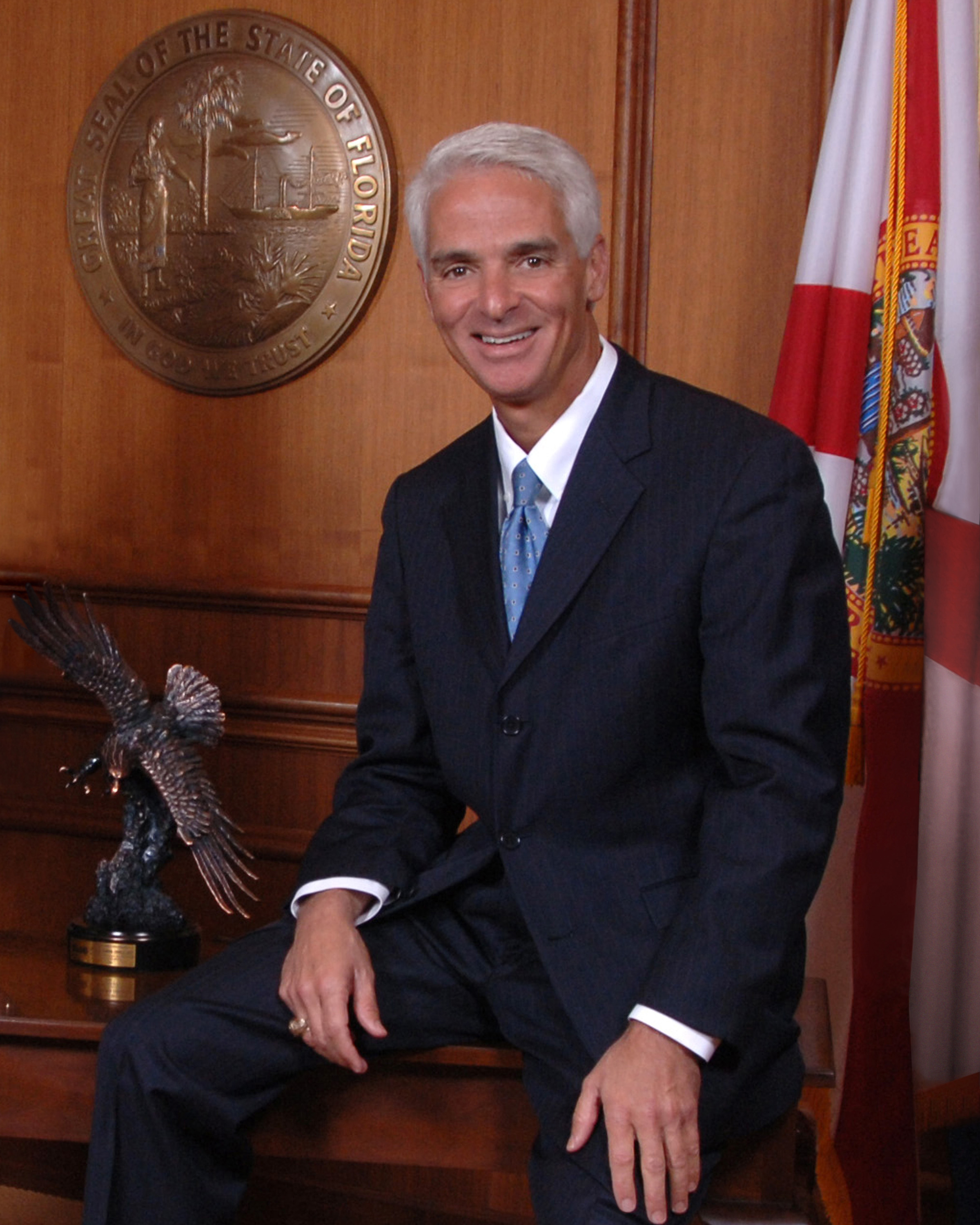 Official photo of Florida Governor Charlie Crist